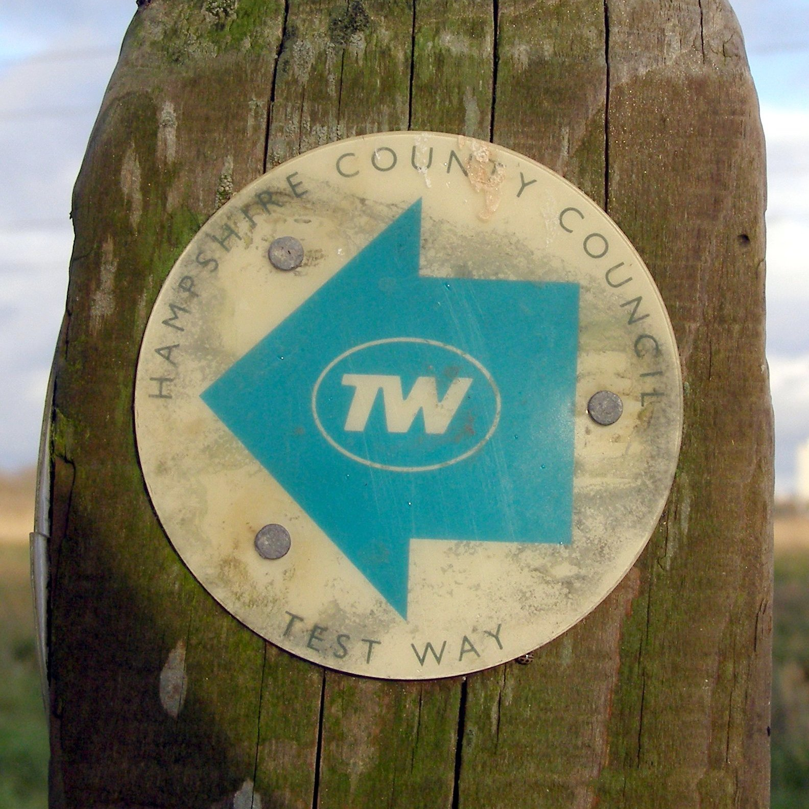 Typical route marker for the Test Way long-distance footpath, attached to a short post on a boardwalk across the Lower Test nature reserve, Totton, Hampshire.